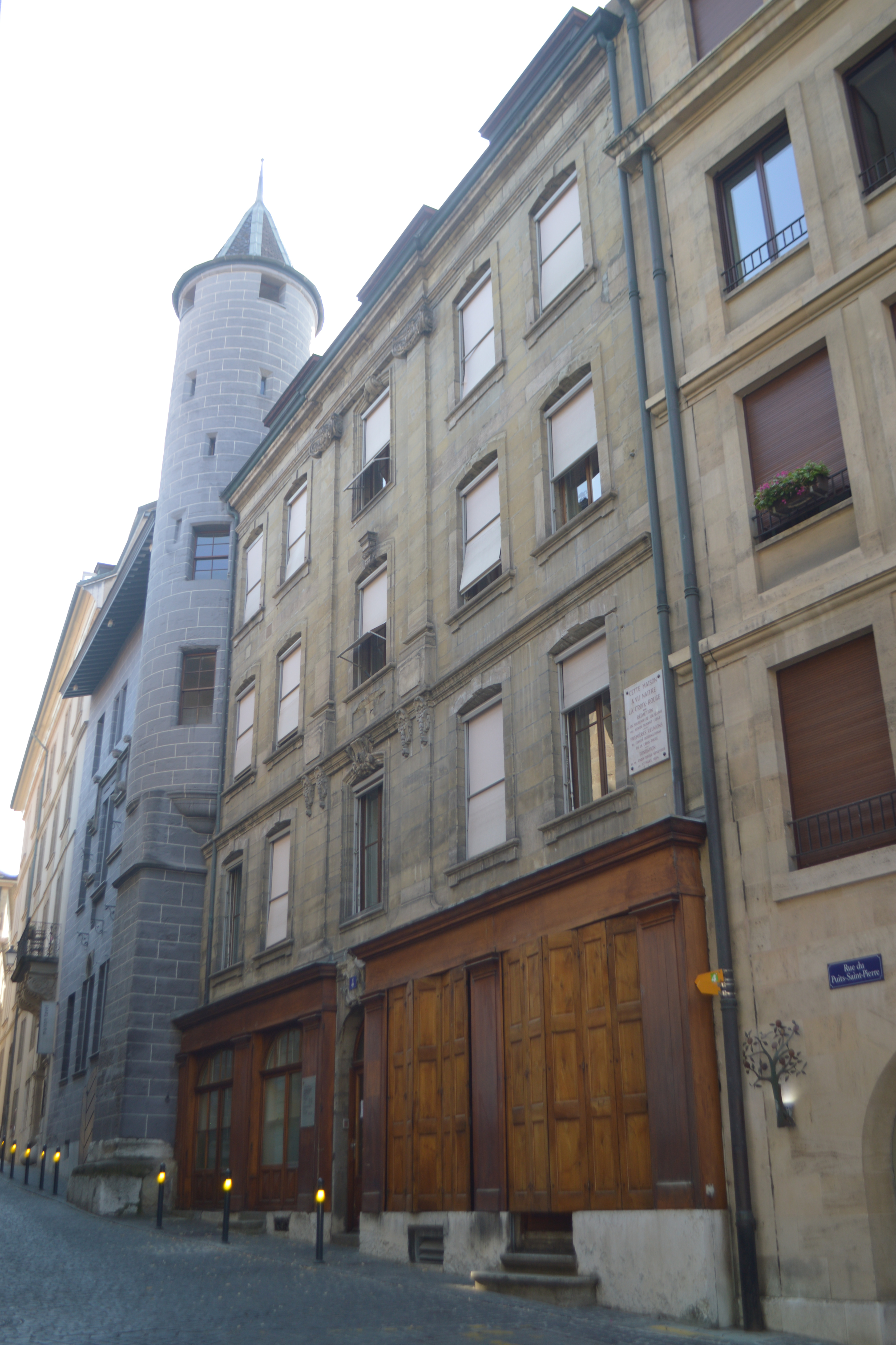 It is in this building, in the Rue du Puits-St-Pierre 4 in Geneva, 3rd floor, Henri Dunant lived during the creation of the International Committee of the Red Cross (ICRC). This is where he wrote his book "A Memory of Solferino", and had its first meeting on the idea of ​​bringing assistance to injured wars, later, in other places, saw the creation of international Committee of the Red Cross. However, the Geneva section of the Red Cross was founded in this building, on 17 March 1864.